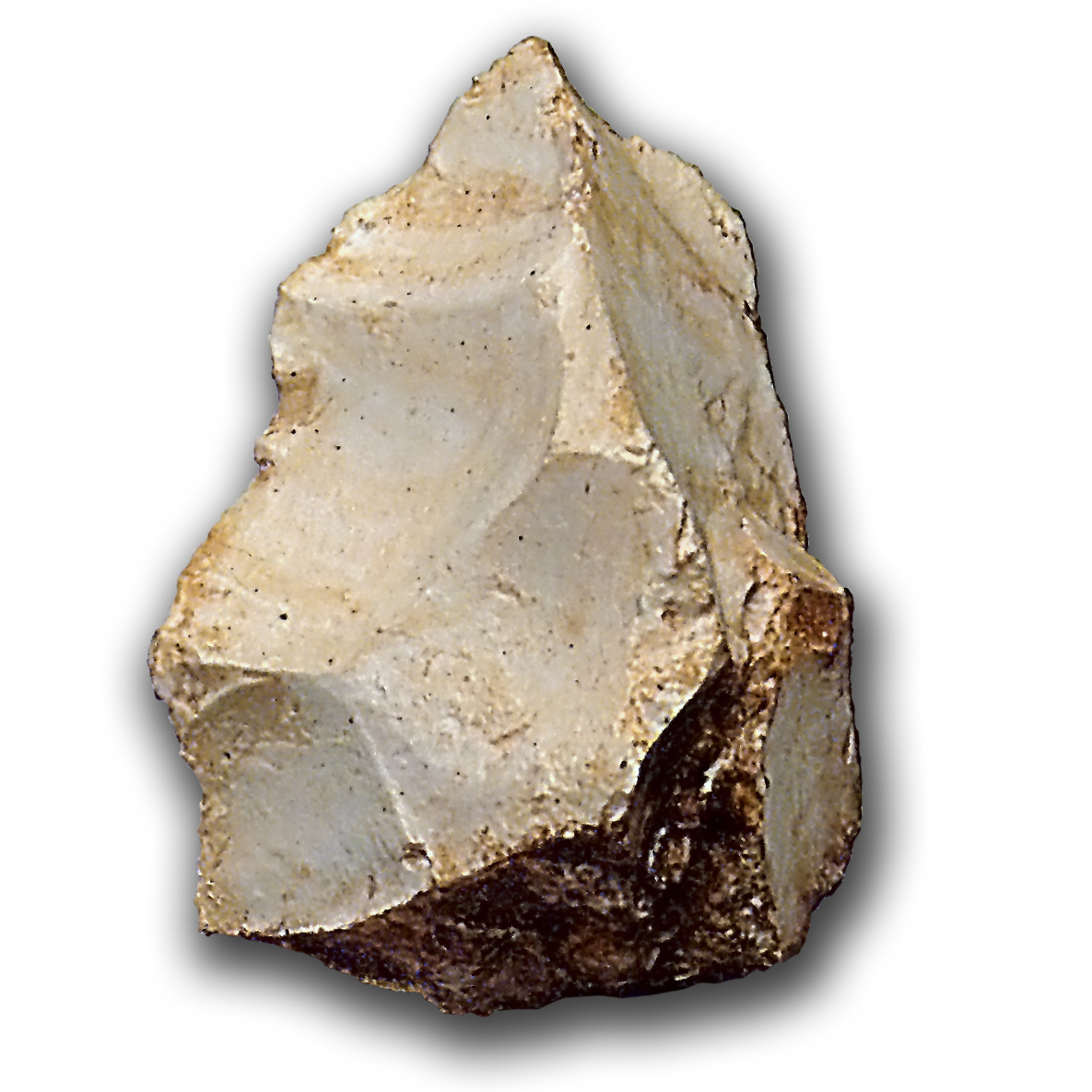 Lithic core in flint, its comes from the bed TD-11 of "Gran dolina" in Atapuerca (Burgos, Spain) and it is dated circa 345,000 years